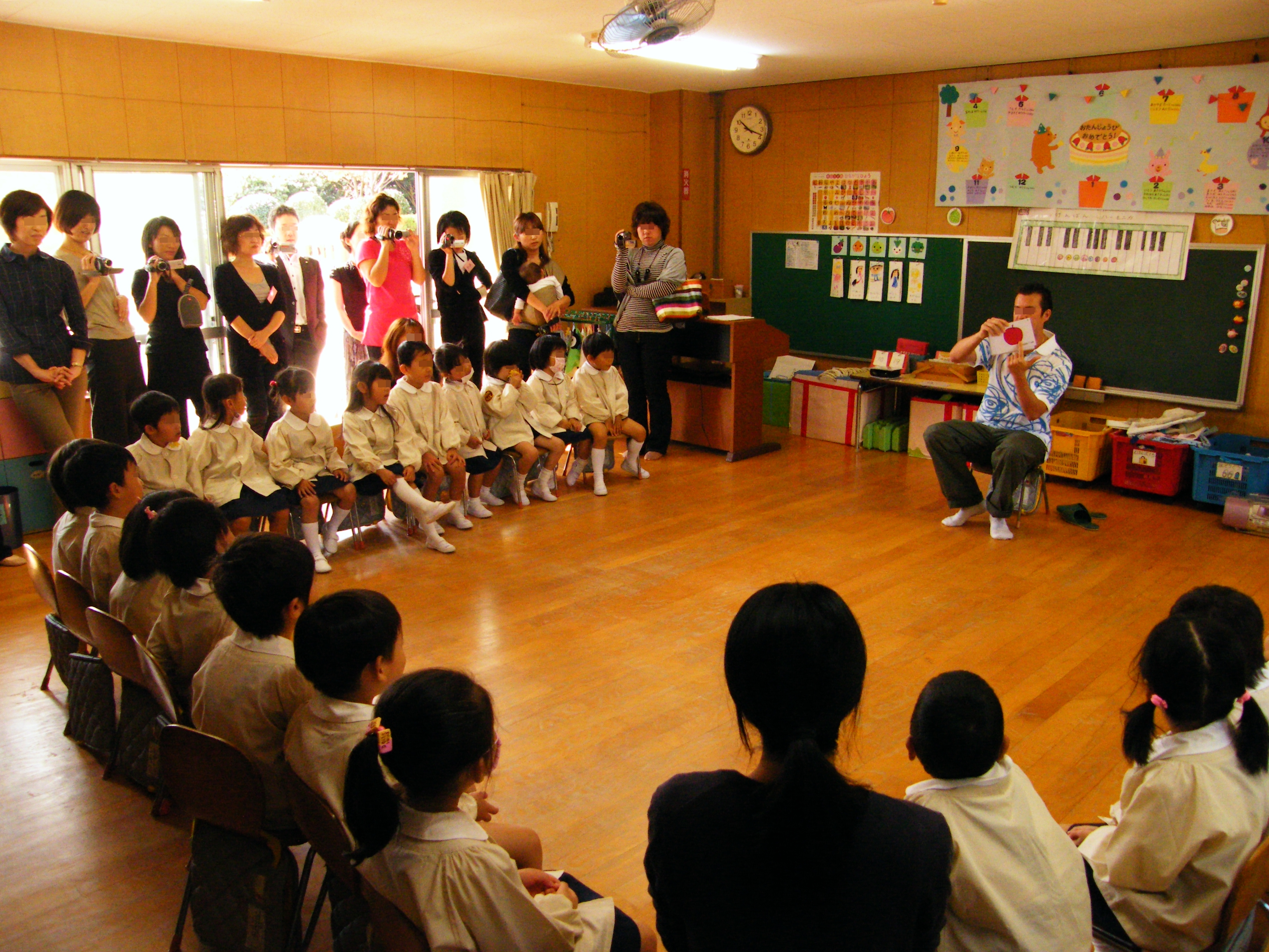 Parents' day